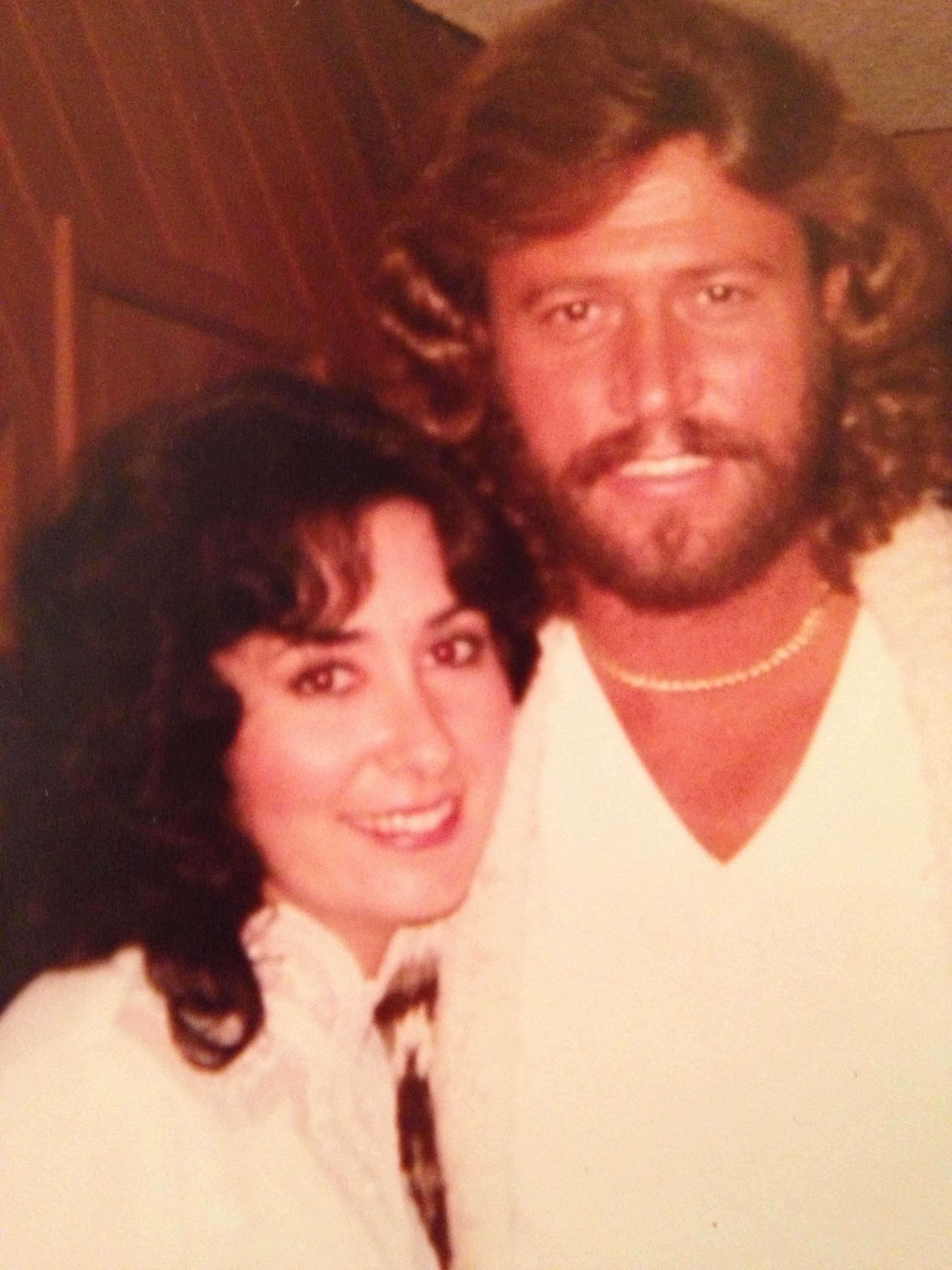 April Byron and Barry Gibb